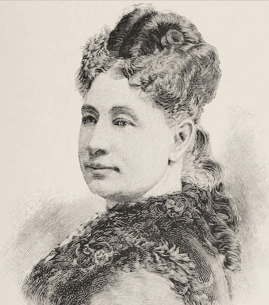 Portrait of actress Mrs. Barney Williams (nee Maria Pray) (1828–1911) (Dates from: (May 7, 1911). "Mrs. Barney Williams Dead". The New York Times.)